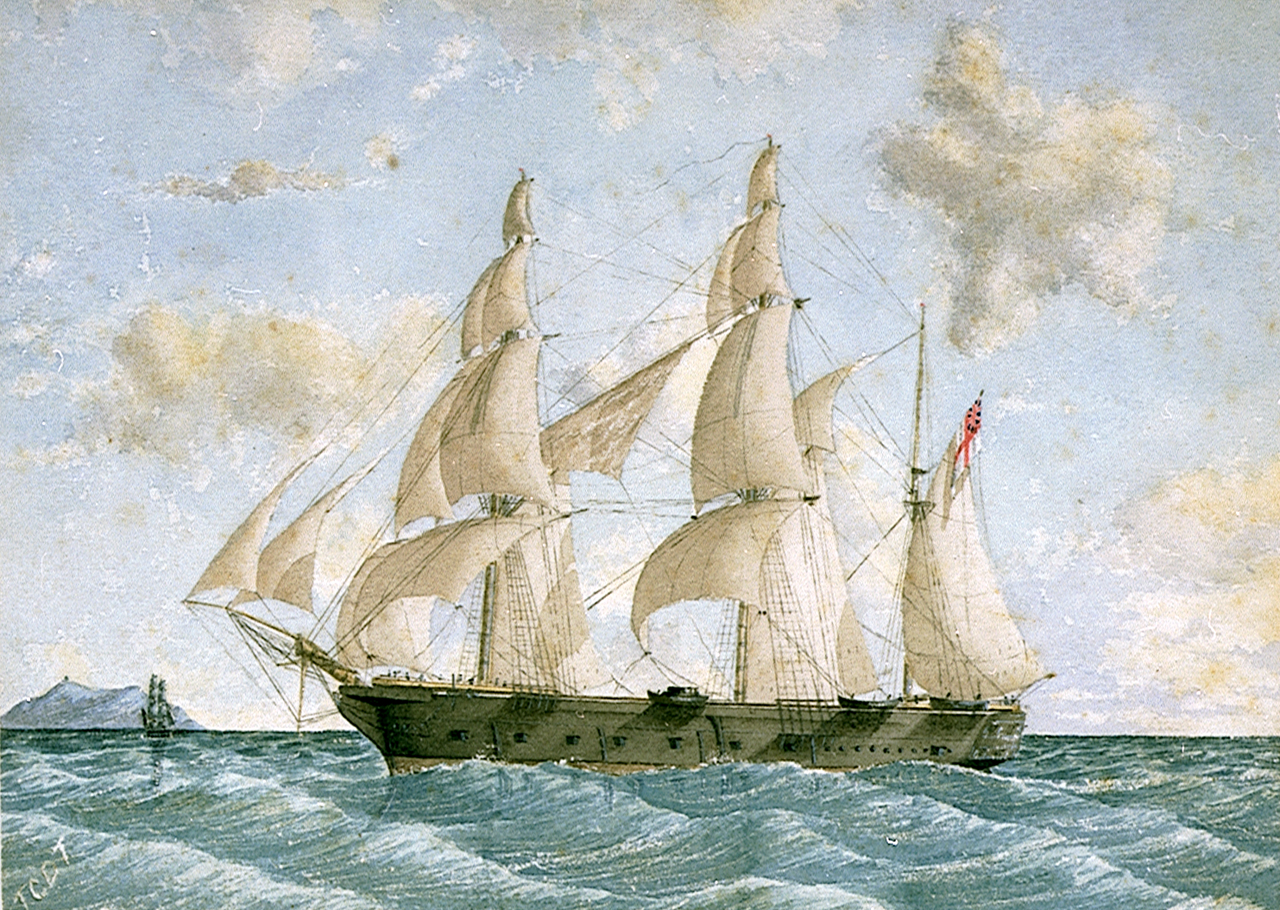 From Plymouth to Falkland Islands & home via (?) with Magaera (sic) 1869 The artist, Thomas C.D. Thompson, served as a midshipman on her.